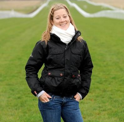 image of jockey Hayley Turner